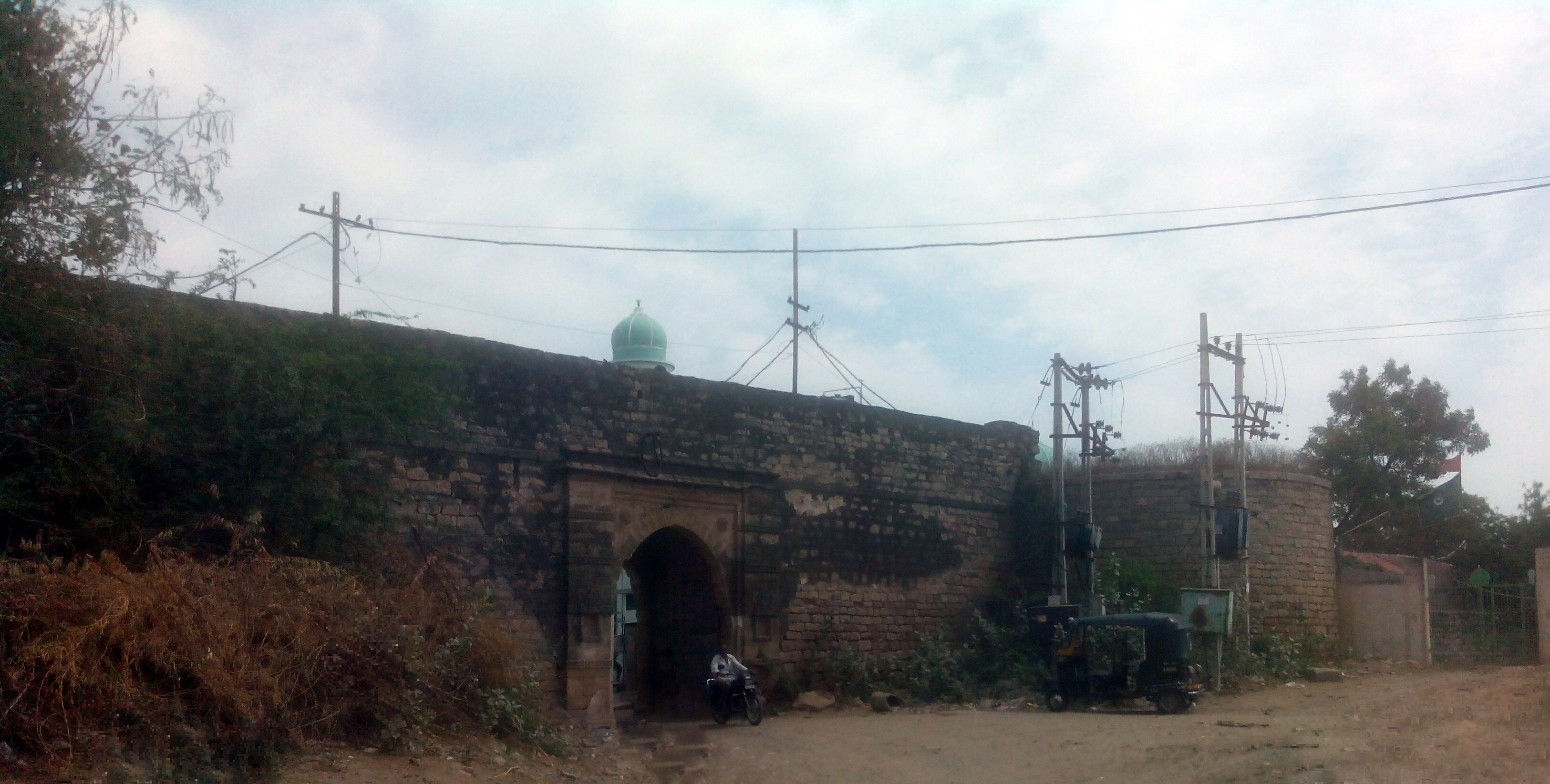 Nadivala Naka Gate of Fort, Mundra, Kutch district, Gujarat, India